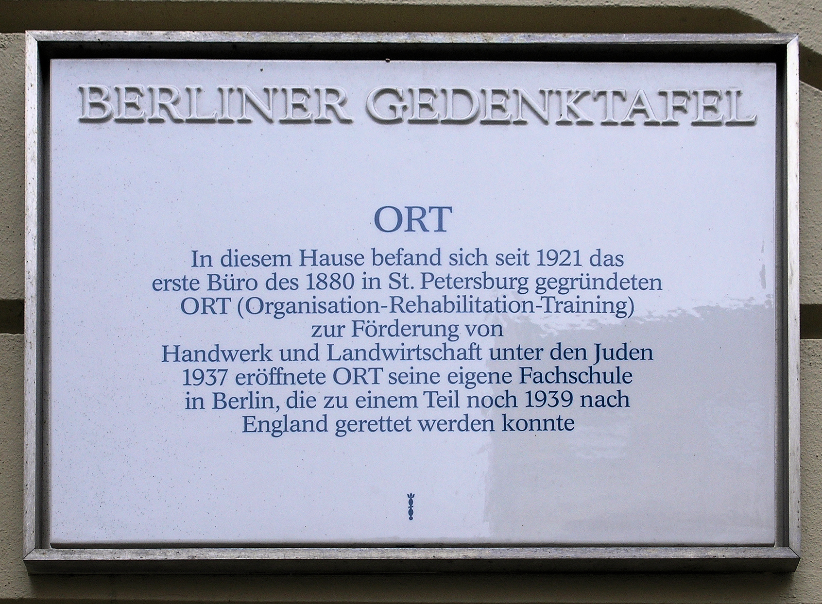 Berlin memorial plaque, Organisation-Rehabilitation-Training, Bleibtreustraße 34/35, Berlin-Charlottenburg, Germany